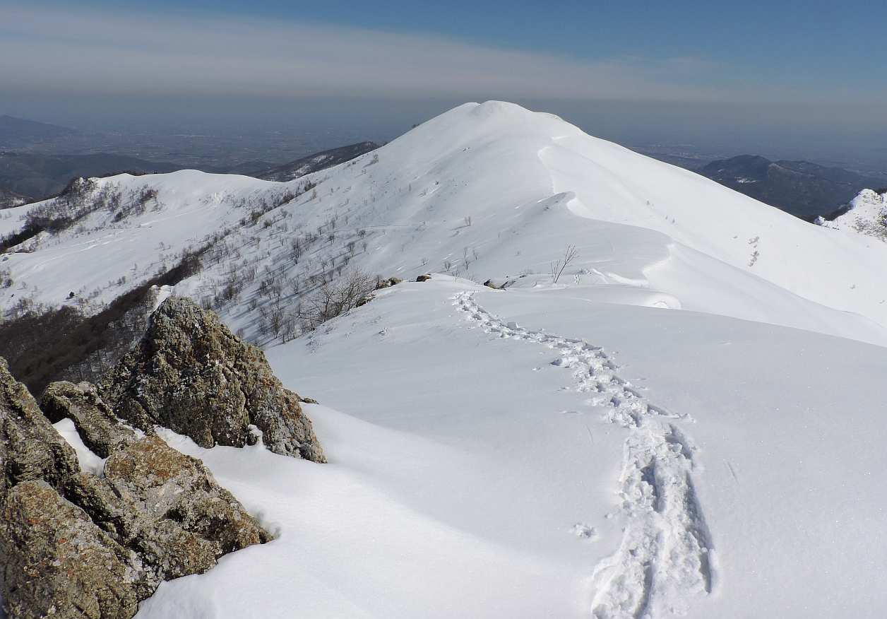 Alpe di Rittana (Cottian Alps, Italy)ː western view